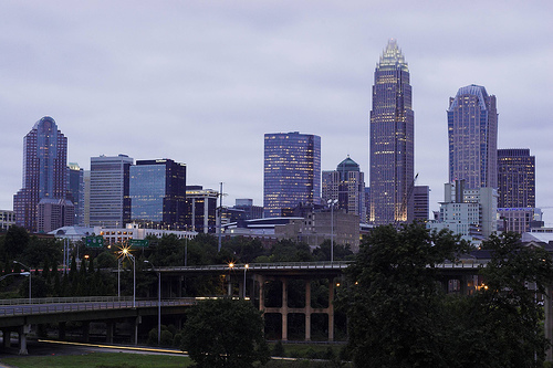 Skyline of Charlotte, North Carolina